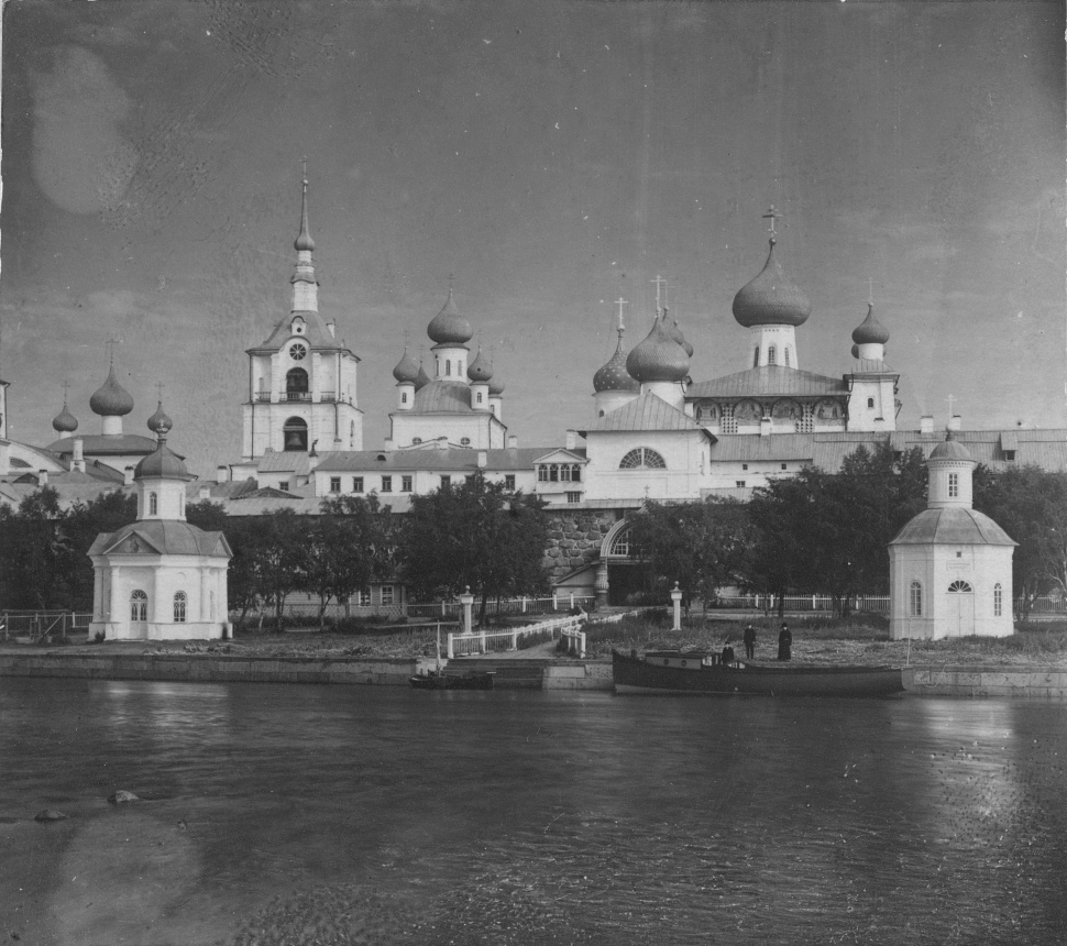 Troitskii sobor s iuga. [Solovetskii monastyrʹ, Solovet︠s︡kie ostrova]